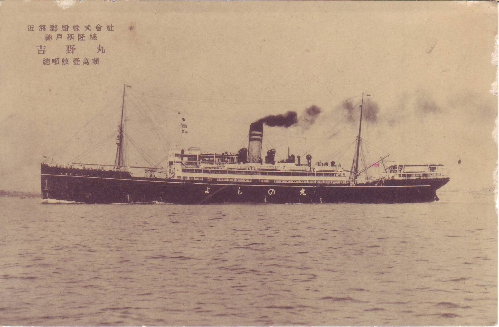 Postcard of KYK Line (Kinkai Yusen) "Yoshino Maru" (ex - SS Kleist).